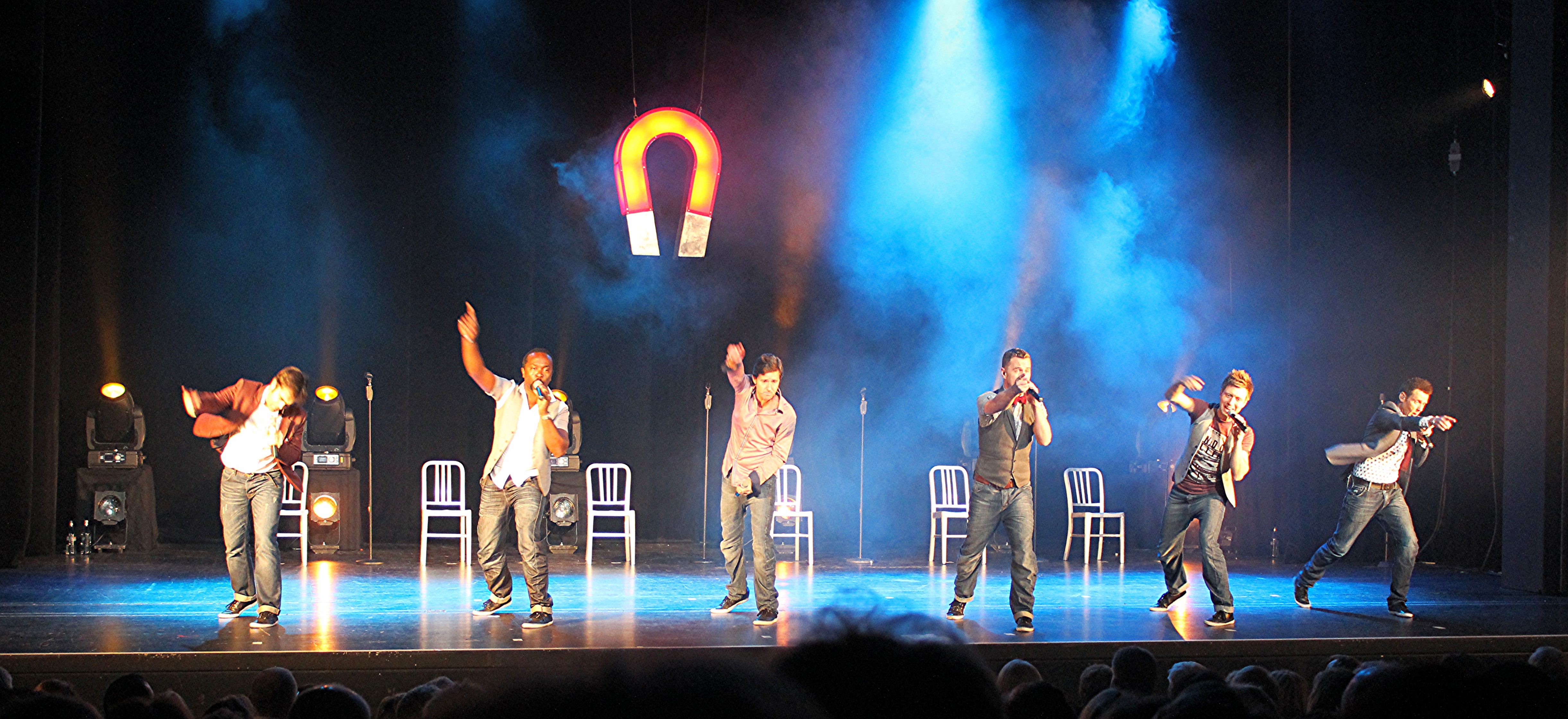 Gifhorn, 8th November 2013